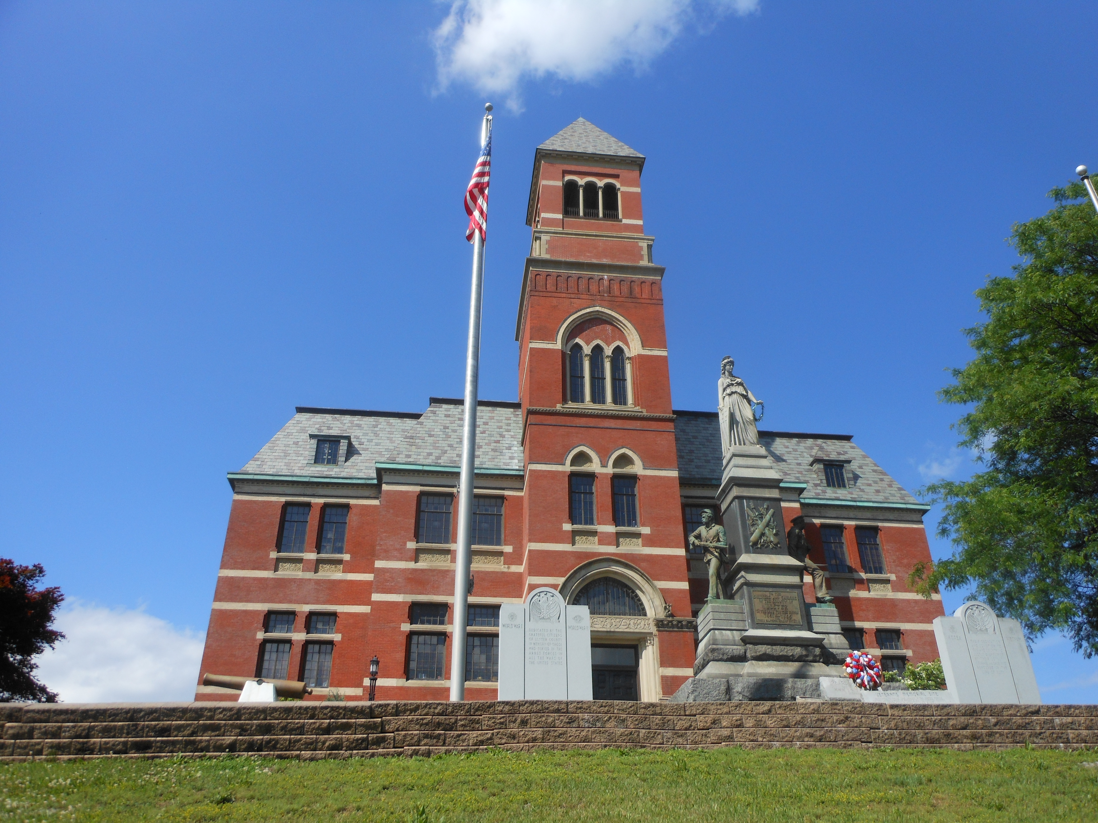 City Hall in Kingston, NY